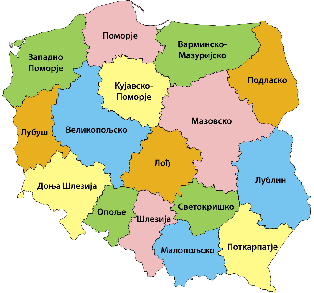 Voivodeships of Poland